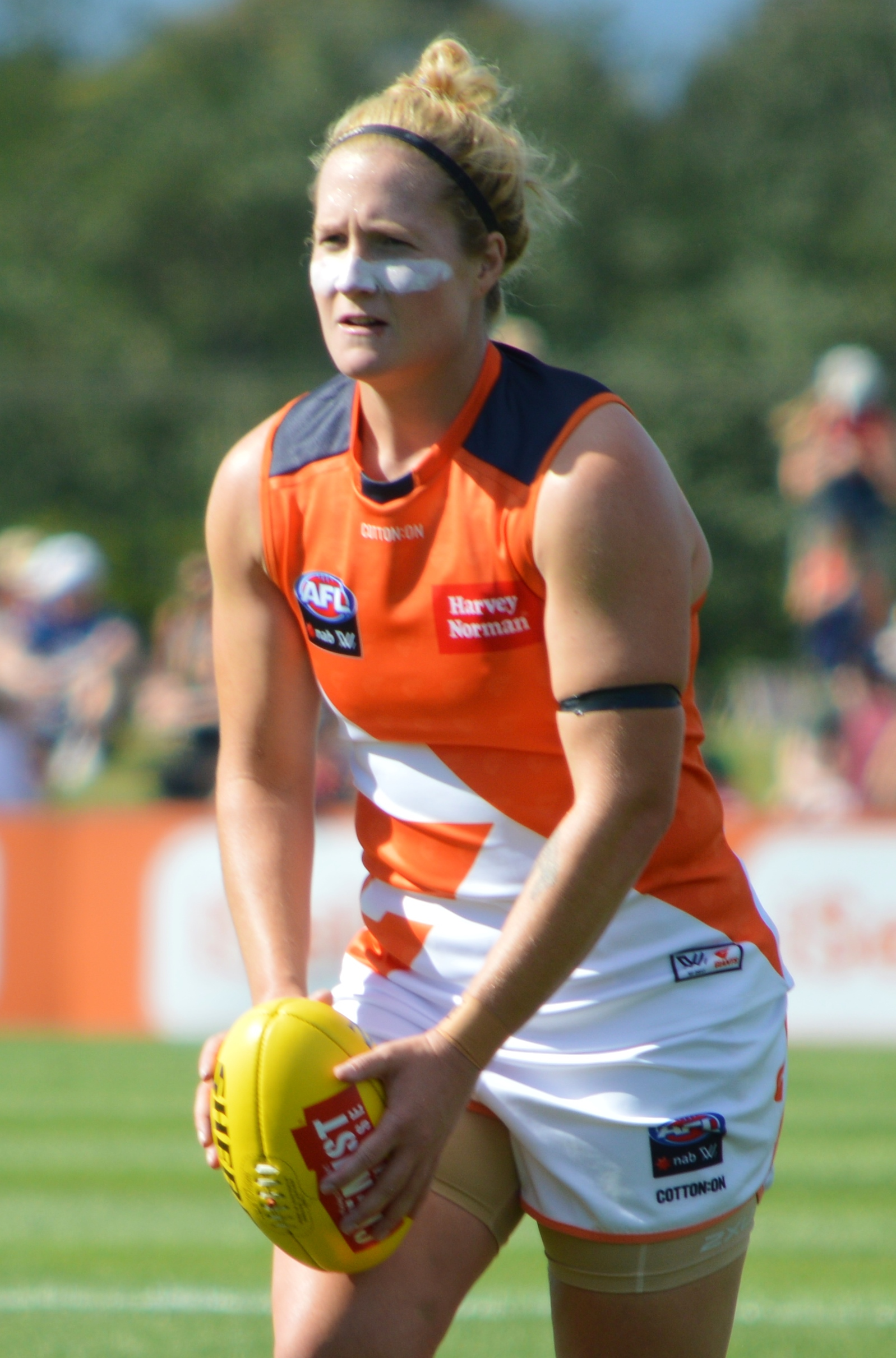 Britt Tully during the round 1, 2018 AFL Women's match between Melbourne and Greater Western Sydney.